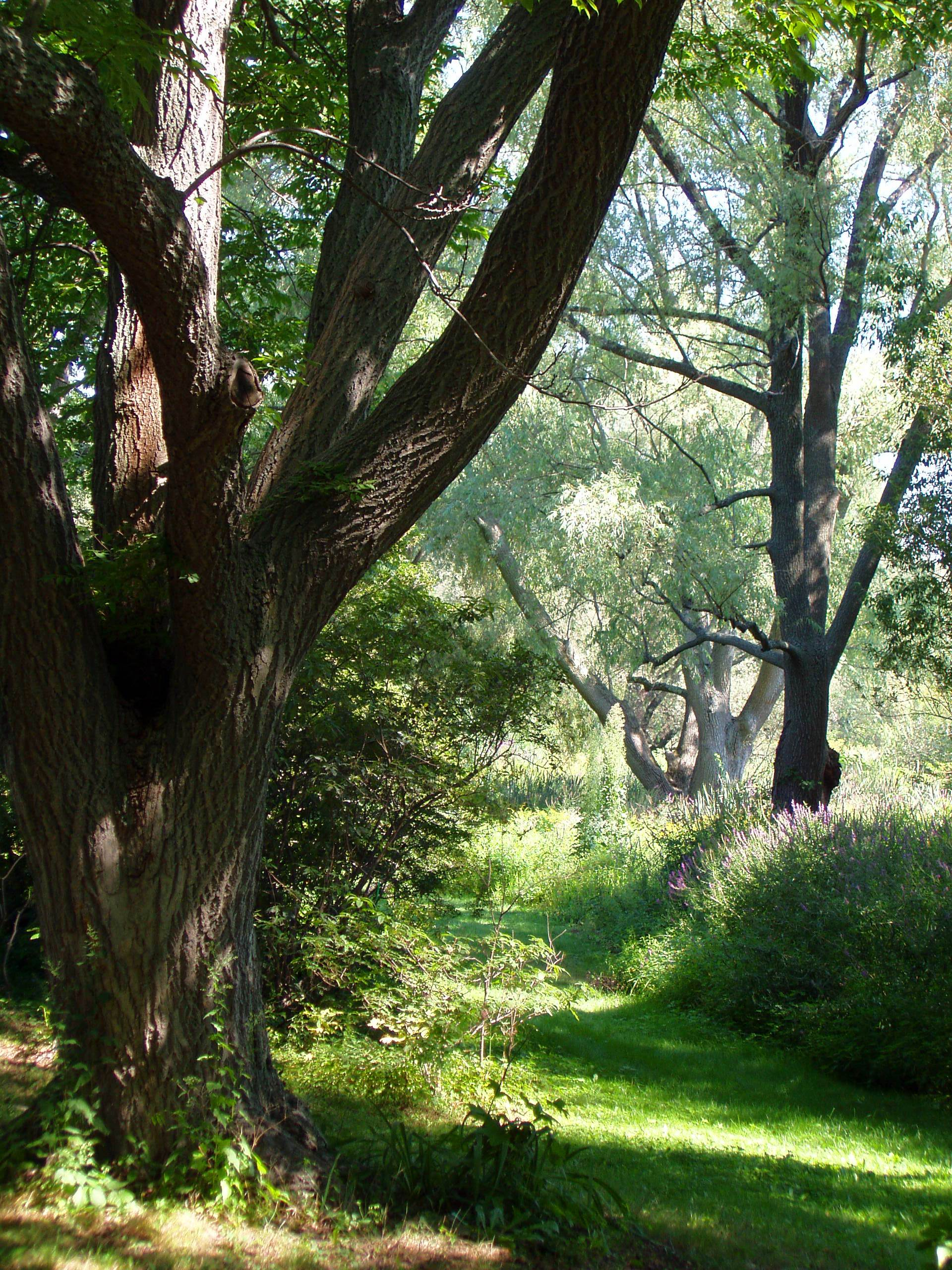 Arnold Arboretum, Jamaica Plain, Boston, Massachusetts. General view (a); photograph taken by me, August 2005.